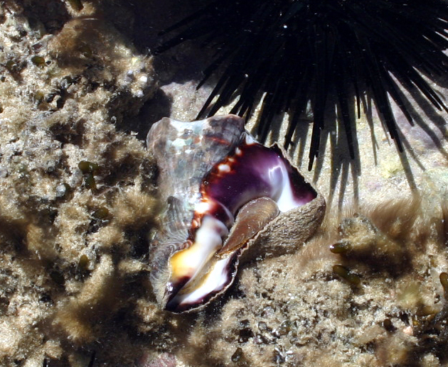 Vasinae in Tidepool in Mombasa. (Possibly Vasum rhinoceras)